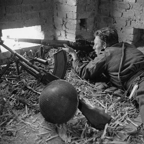 Pte. Jack Bailey of the Perth Regiment, sniping at enemy troops, Orsogna, Italy, 29 January 1944. Bailey is using a Pattern 1914 Enfield bolt-action rifle fitted with a telescopic sight. There is a Bren light machinegun next to him.